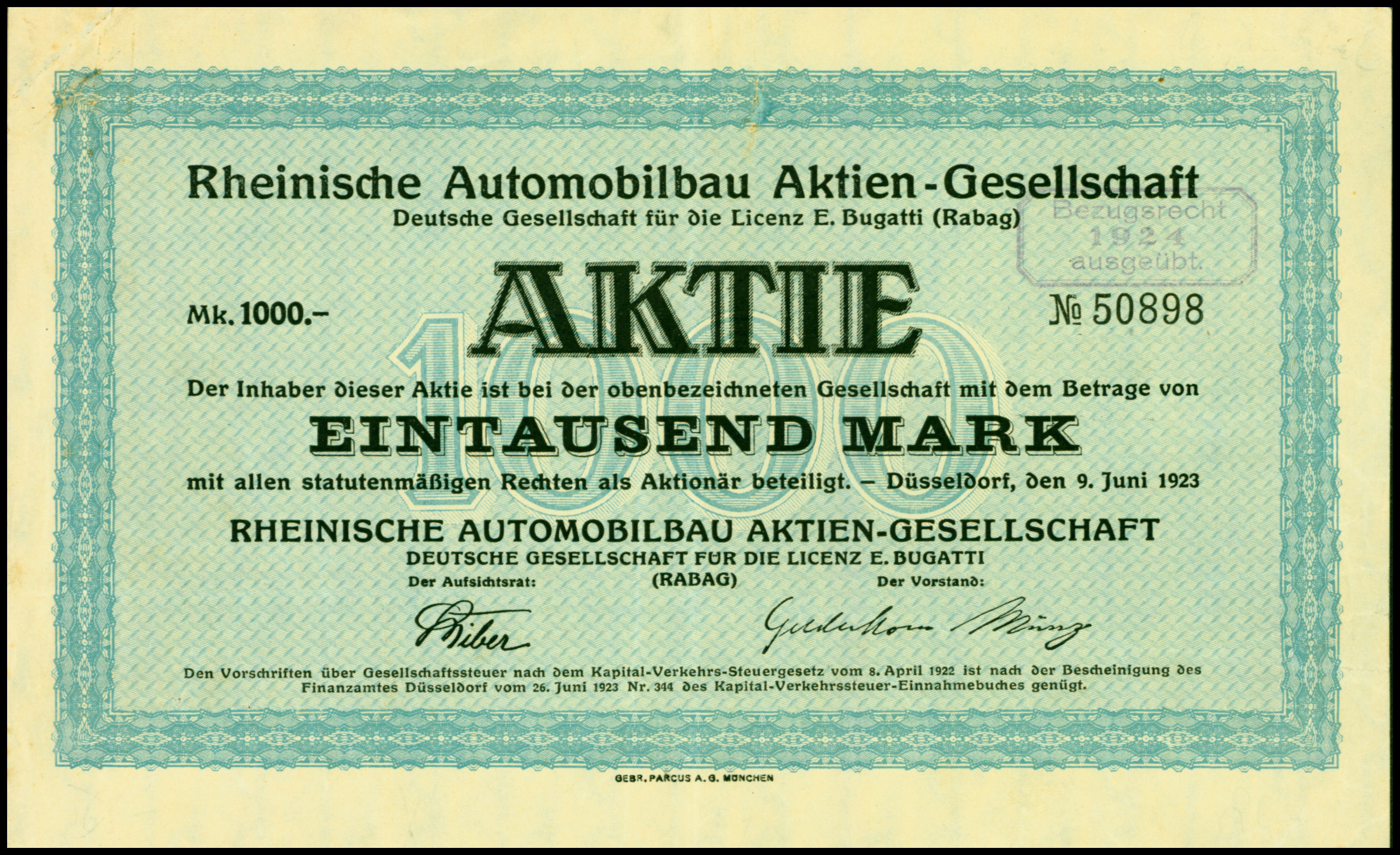 Share of the Rheinische Automobilbau AG, issued 9. June 1923